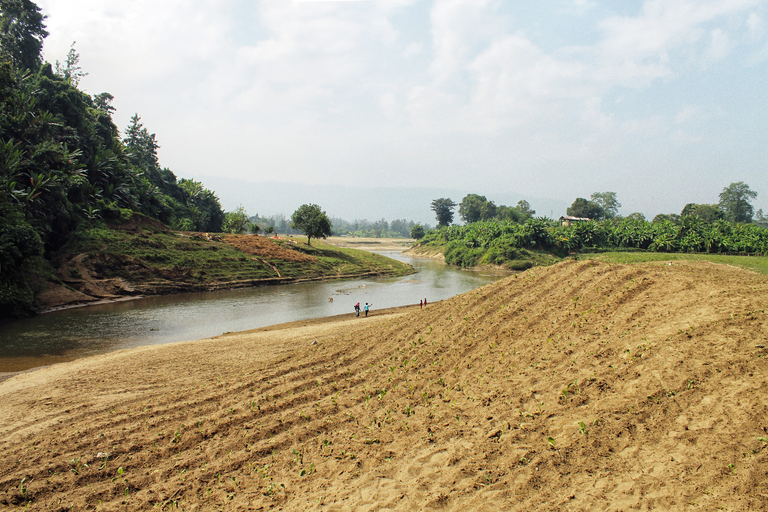 Ali Kadam upazila in Bandarban district.